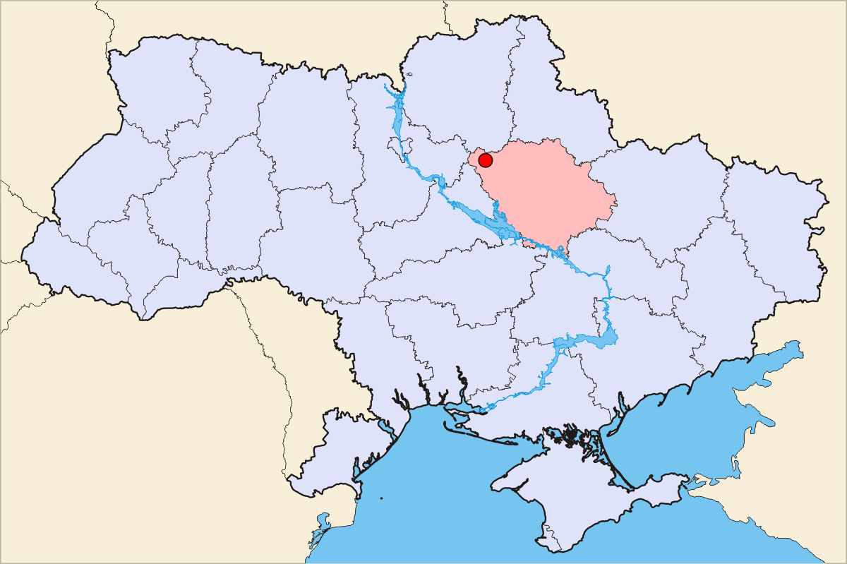 Description = Pyriatyn geographical position Source = own work, Skluesener Date = 15.01.2006 Author = Skluesener Credits = Colours chosen according to a map of steschke